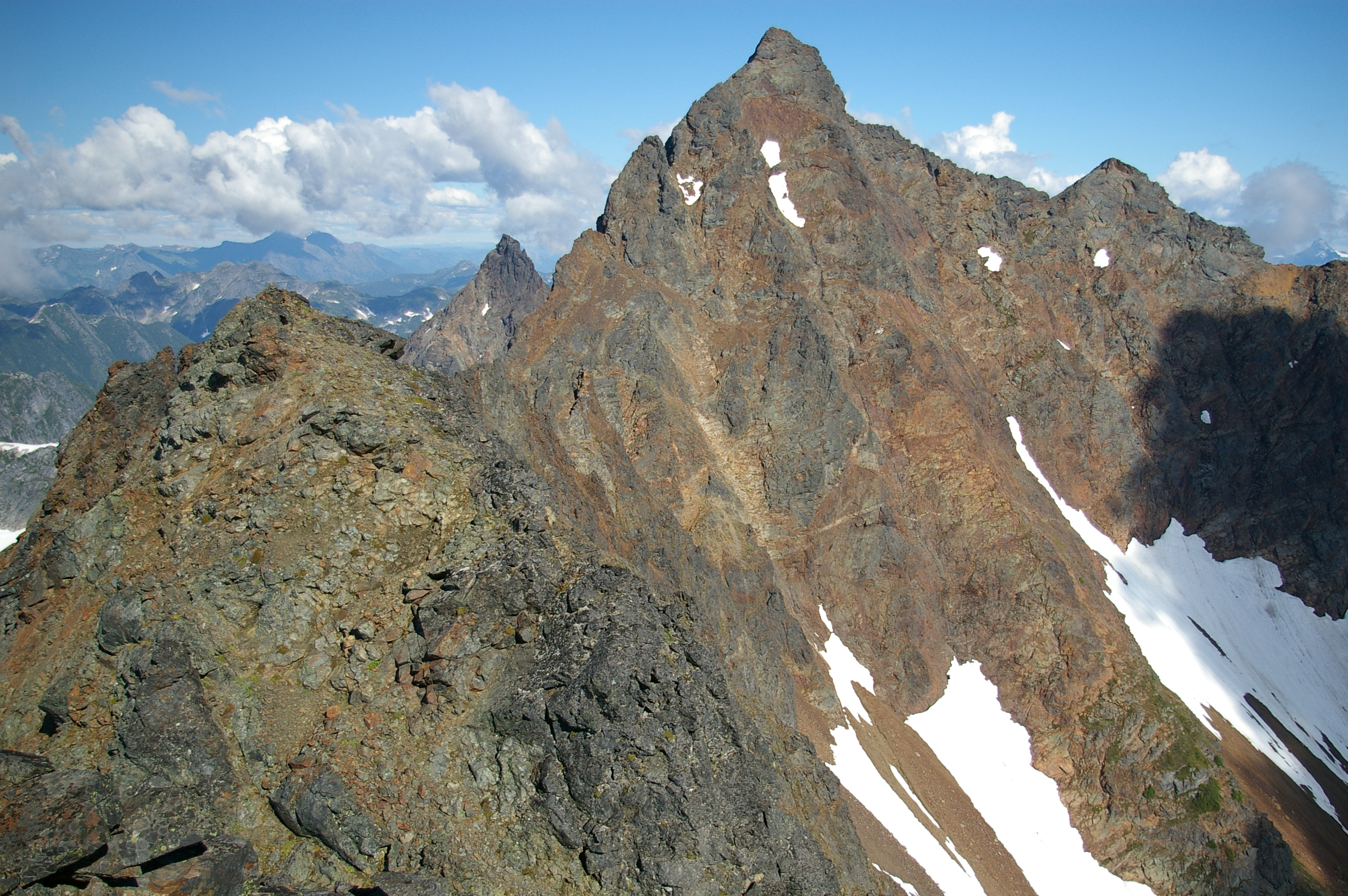 Welch Peak in Skagit Range of North Cascades